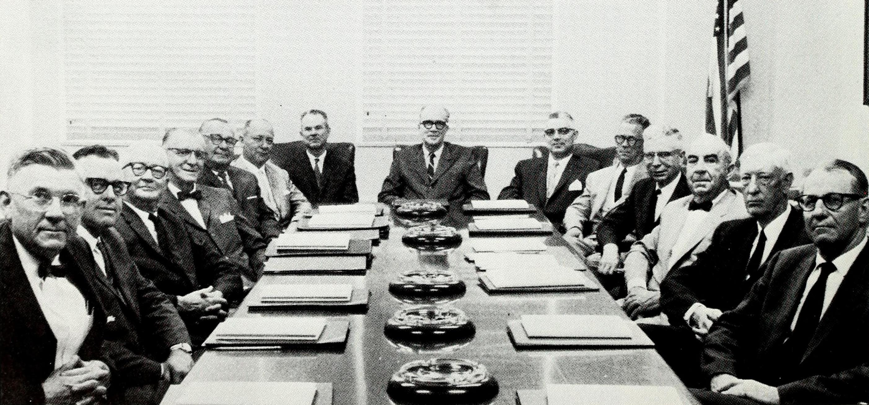 A scanned page from the 1963 edition of Reveille, the yearbook of Mississippi State University